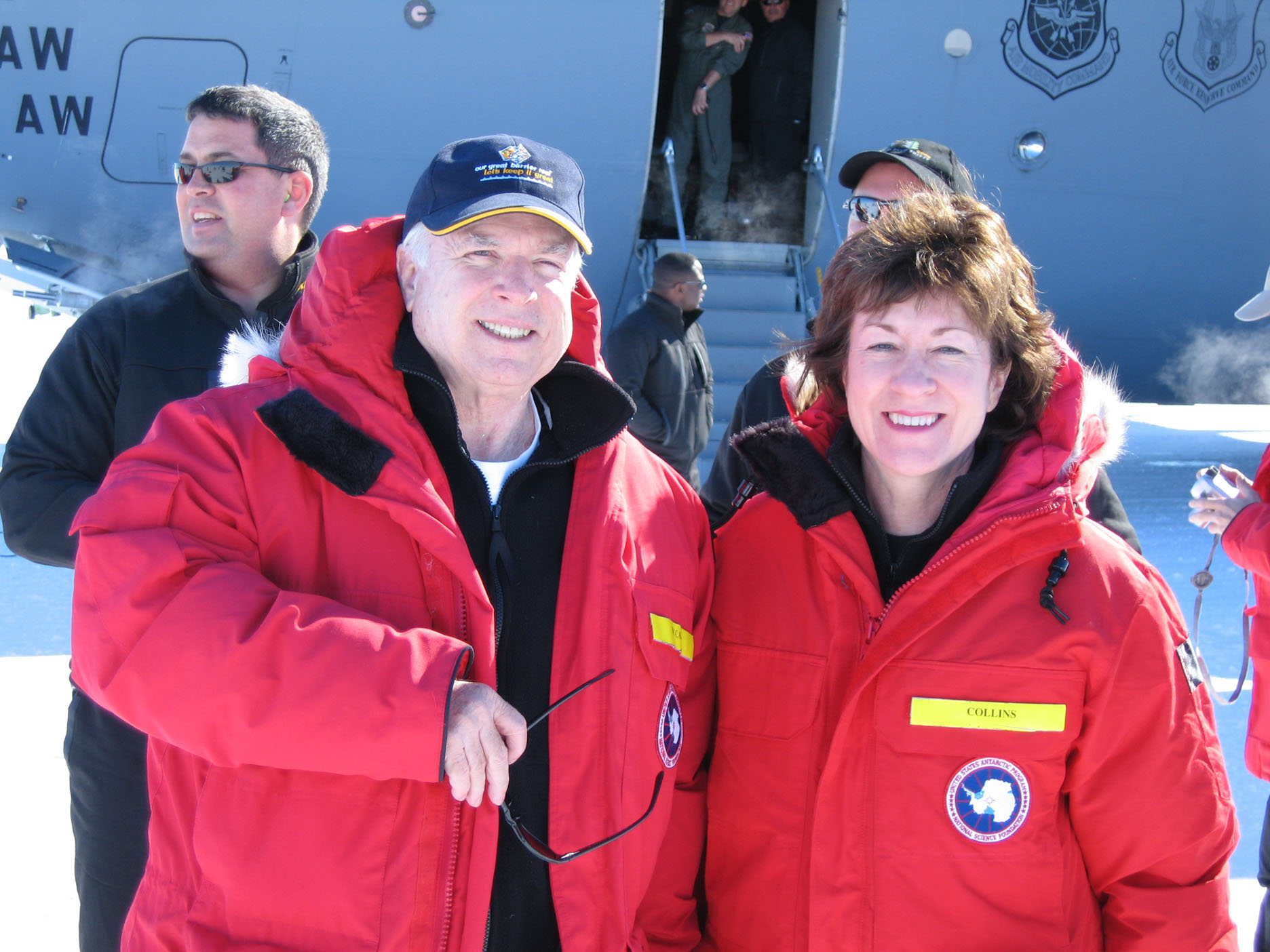 Senator Susan Collins (R-ME) and Senator John McCain (R-AZ) on a trip to Antarctica to meet with climate change researchers.